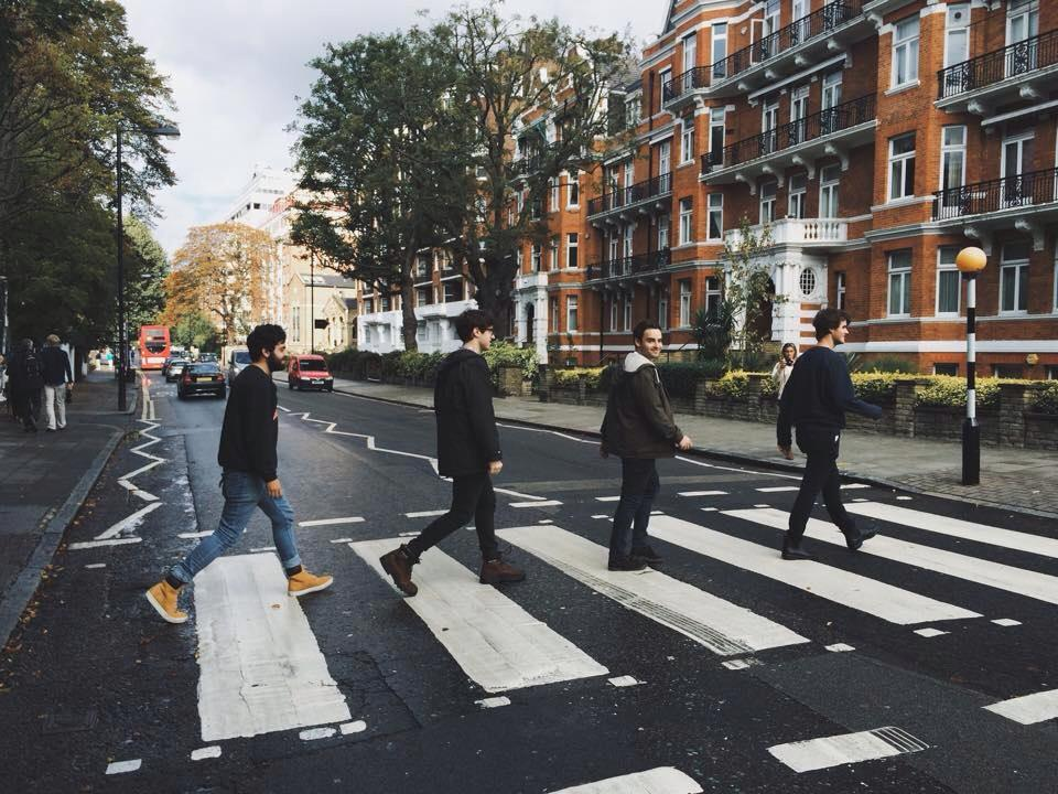 Alistar and Alfio from The Cairos cross Abbey Road with Jesse Davidson and Dj Sammy T